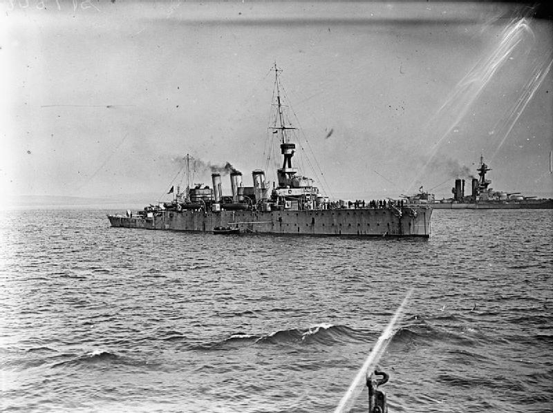 British light cruiser HMS BIRKENHEAD.